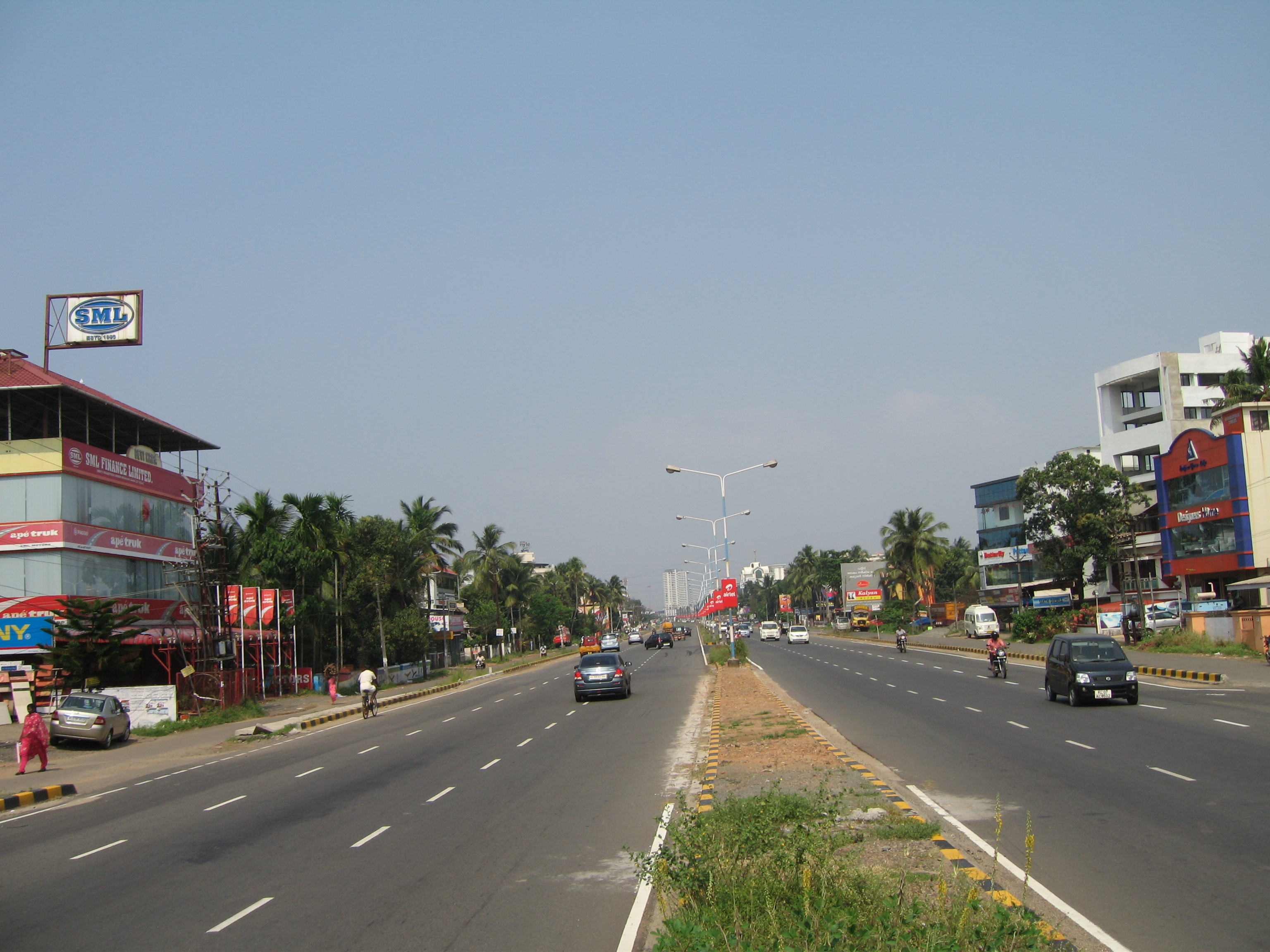 Part of the Kochi Bypass of NH-47 near Vytila that is a Six Lane section. It is part of the Port Connectivity Link of the Golden Quadrilateral Highway Network.